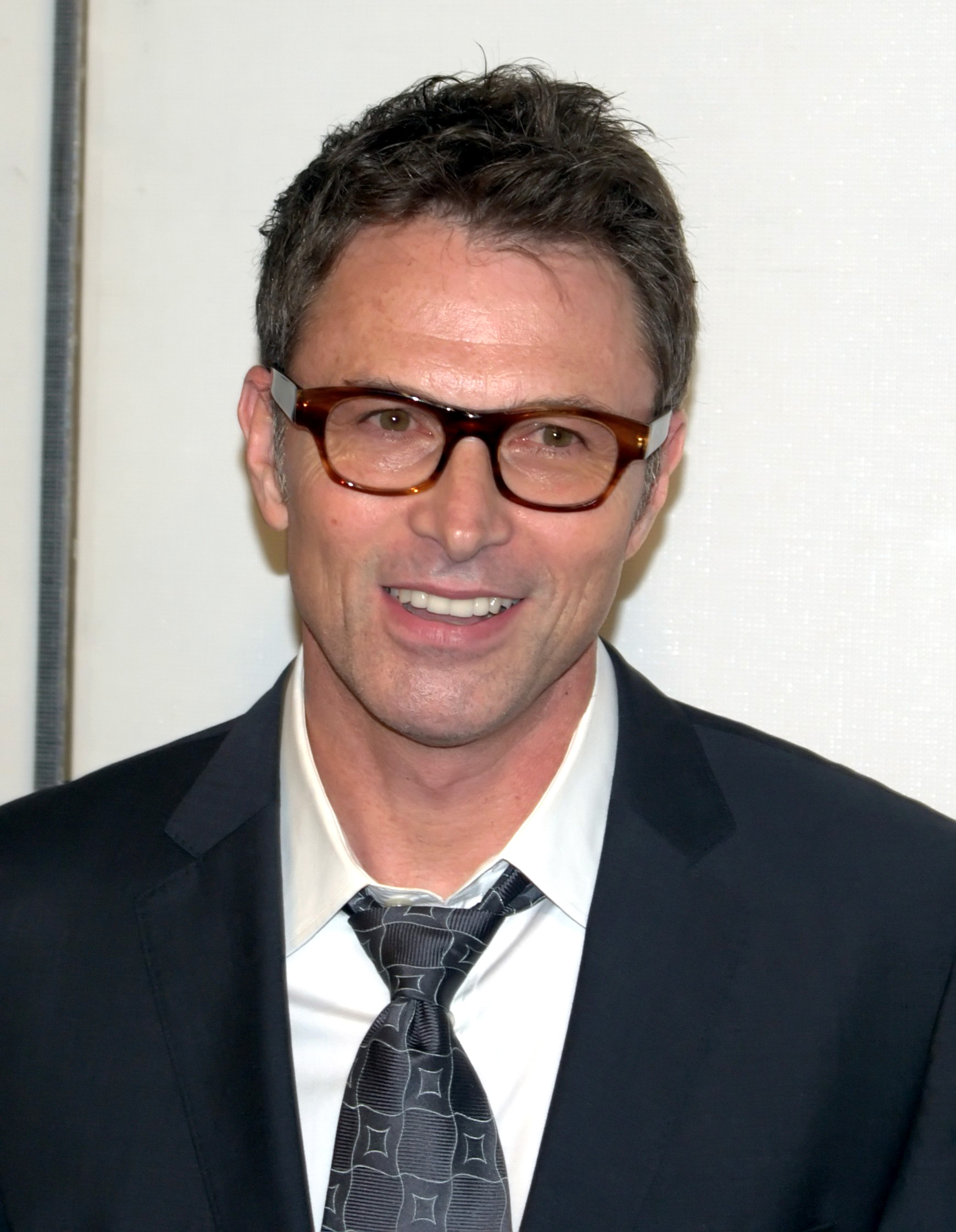 Tim Daly at the 2009 Tribeca Film Festival premiere of Poliwood. Photographer's blog post about the event at which this portrait was taken.